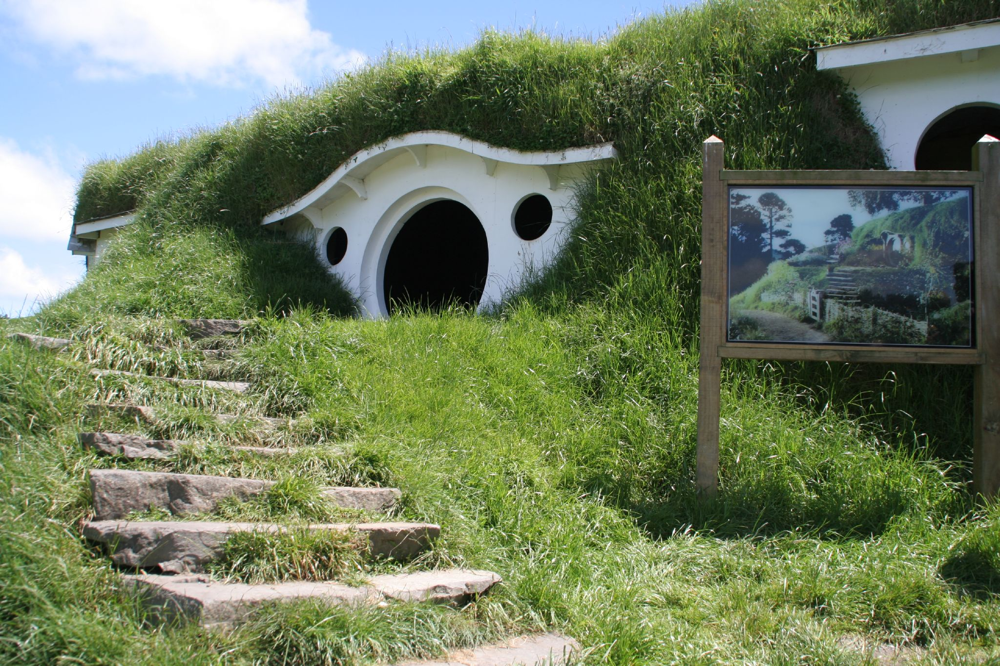 Bag End, as used in the Lord of the Rings films.